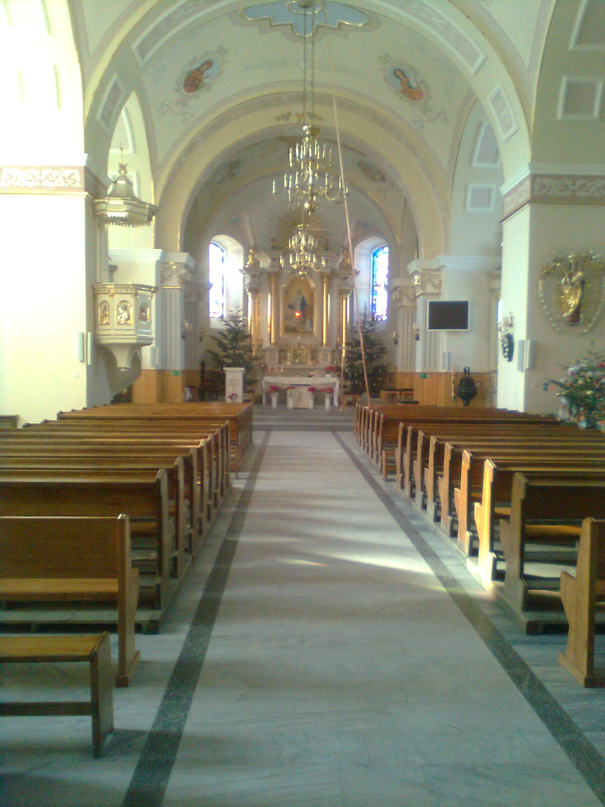 Inside of Church of Saint Jacob in Podegrodzie (Lesser Poland Voivodeship)